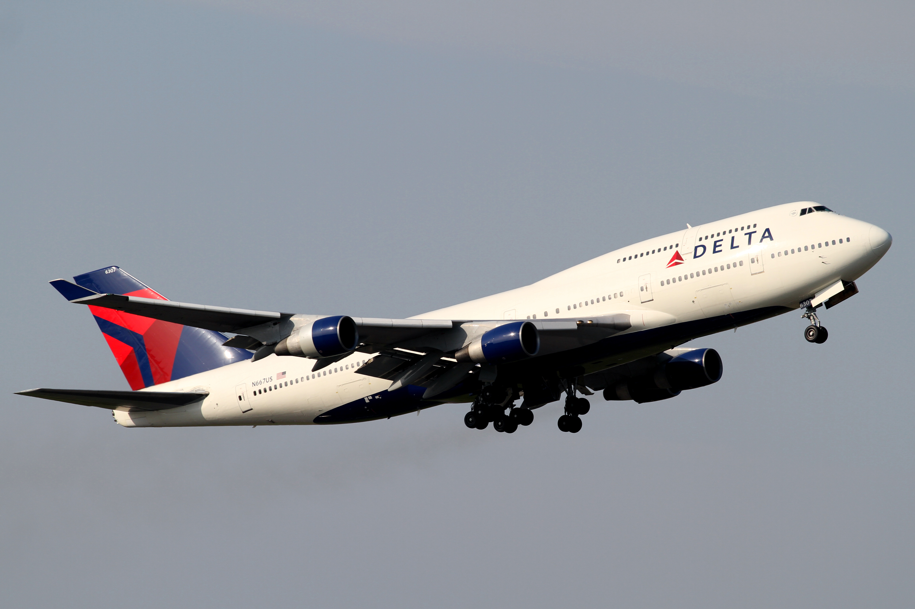 Narita International Airport, Boeing 747-451, c/n:24222, Delta Airliens